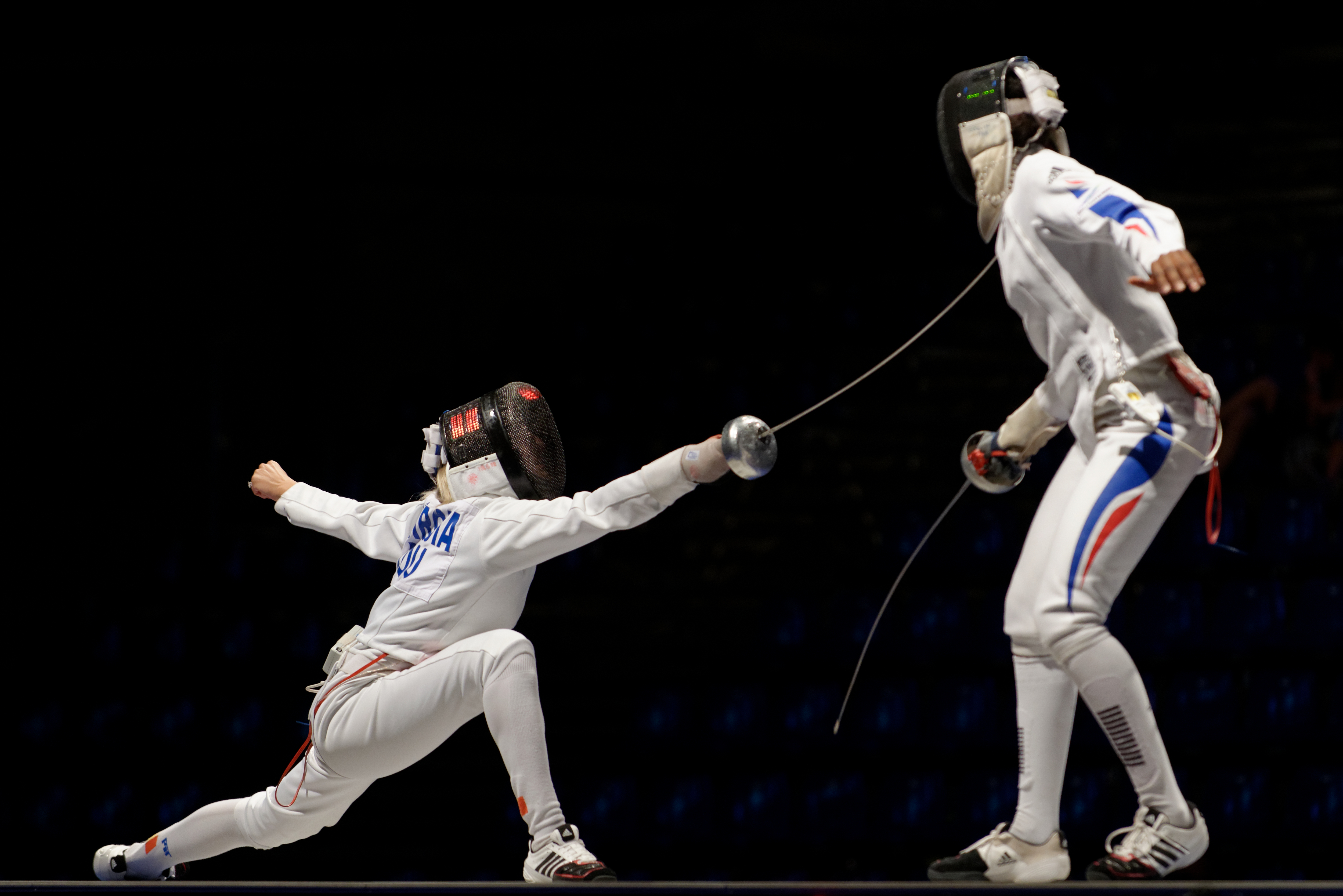 Romania's Raluca Cristina Sbârcia (L) performs a lunge against Joséphine Jacques-André-Coquin of France (R) in the match for the third place of the womens' team épée event of the 2013 World Fencing Championships at Syma Hall in Budapest, 11 August 2013.